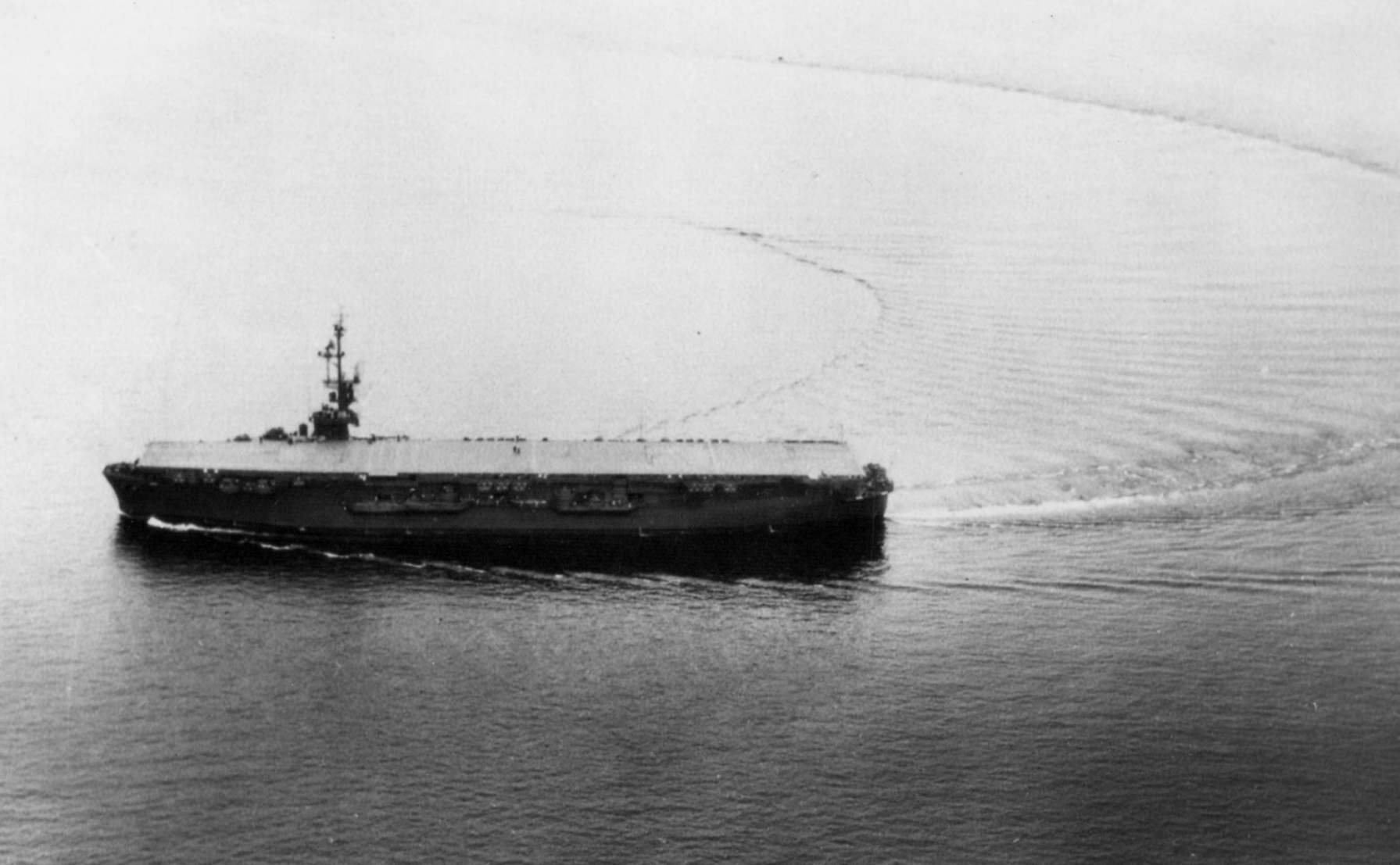 The U.S. Navy escort carrier USS Saidor (CVE-117) pictured after making a turn to port.